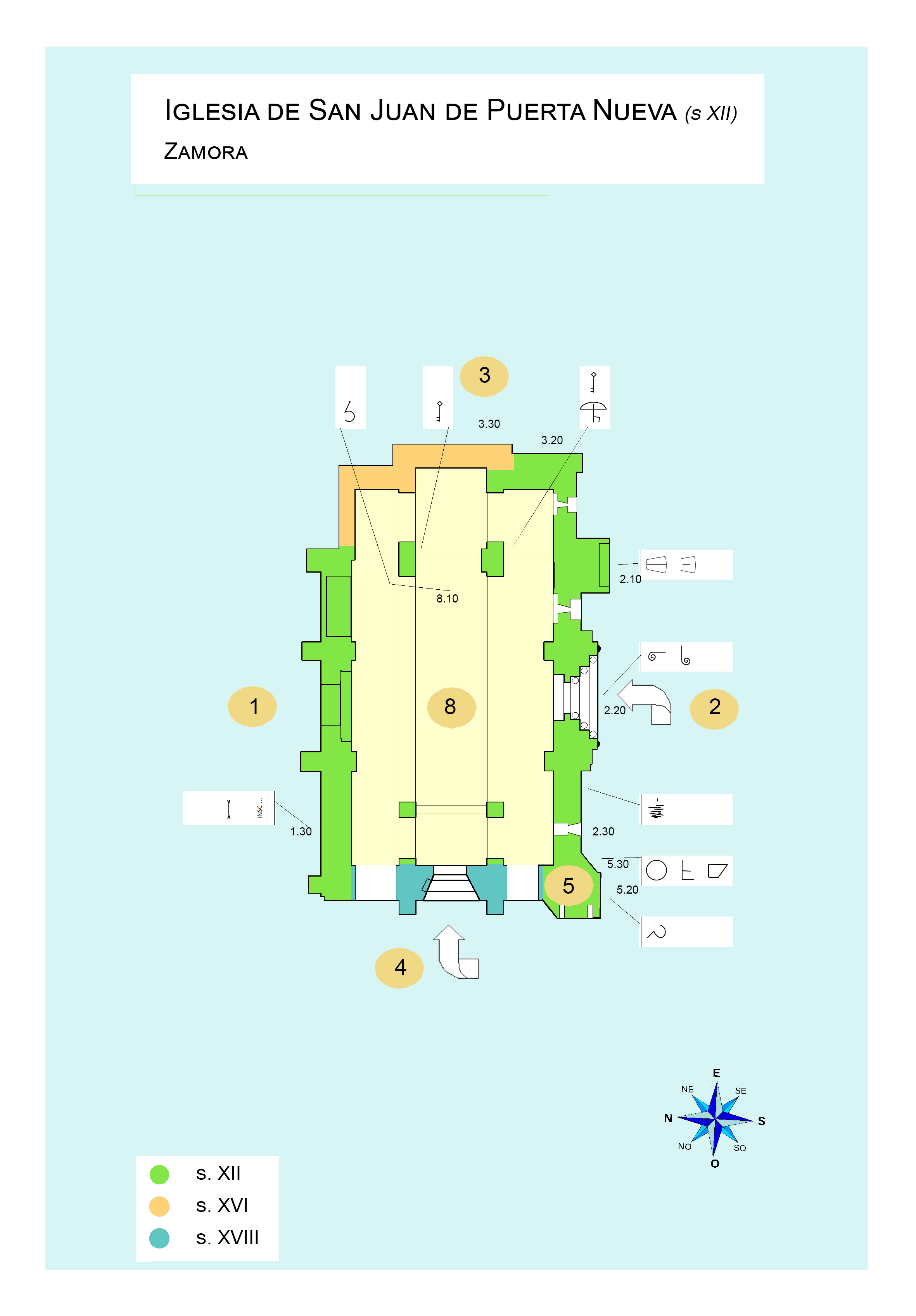 San Juan de Puerta Nueva church, Zamora, Spain, romanesque s. XII. Plan appro. and stonecutter marks.